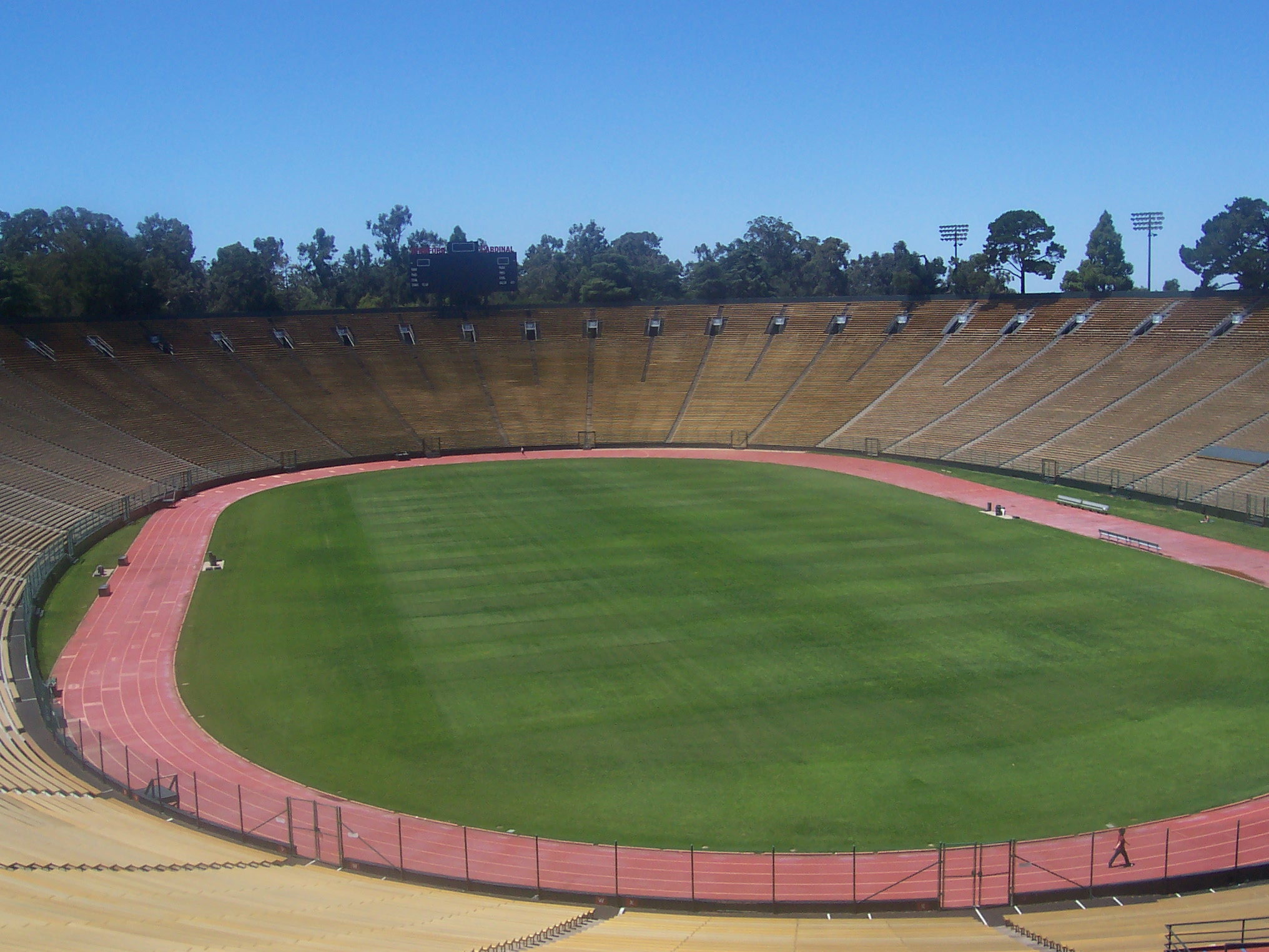 The interior of Stanford Stadium as it appeared in May of 2004.